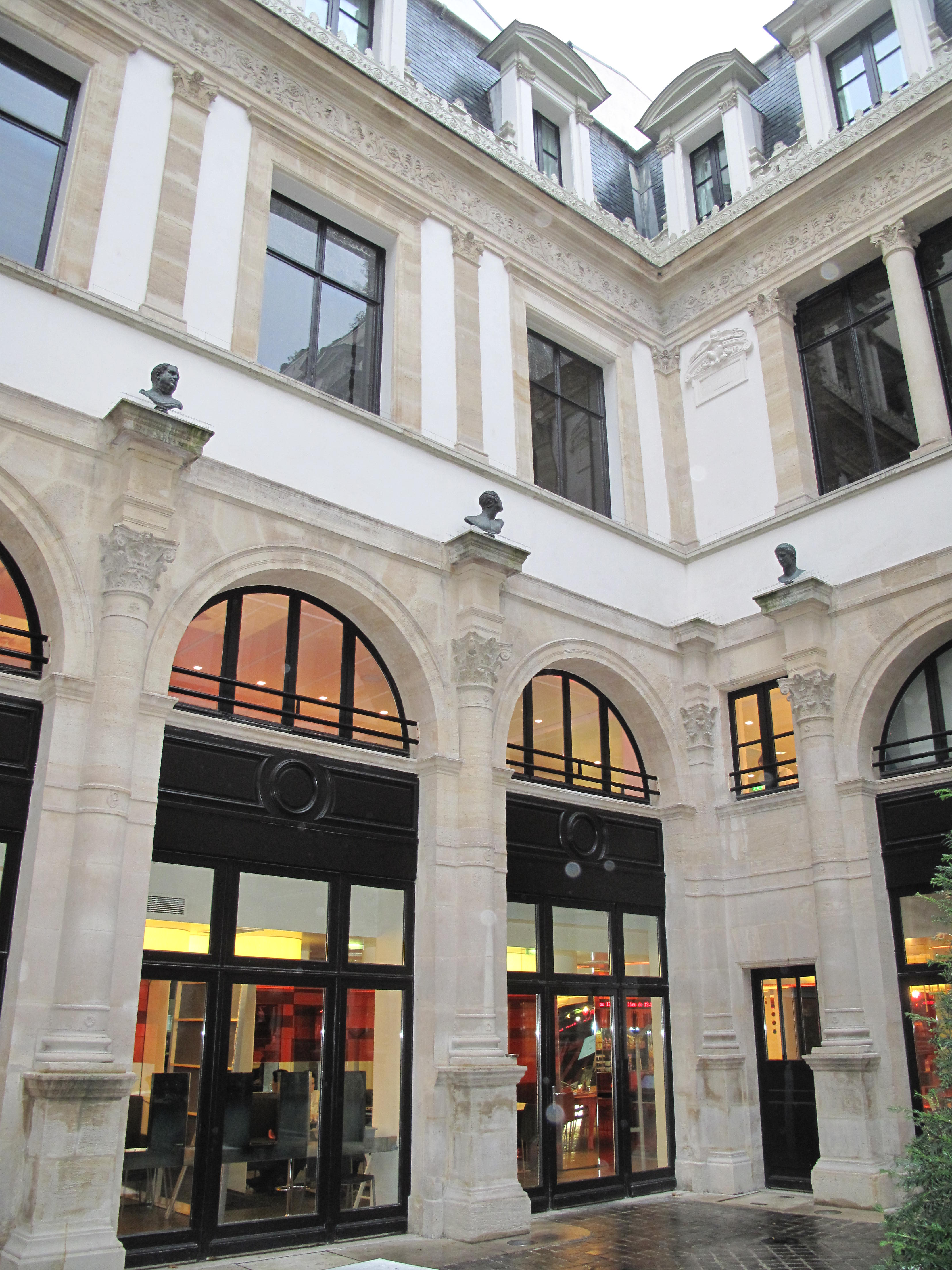 Courtyard at the 7 rue Tronchet, Paris 8th arr.